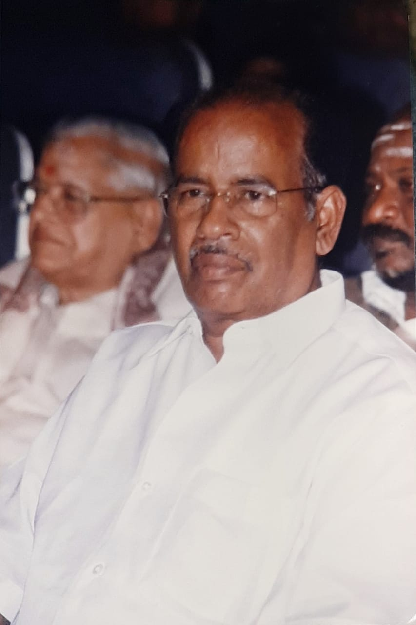 Former chief minister of Pondicherry